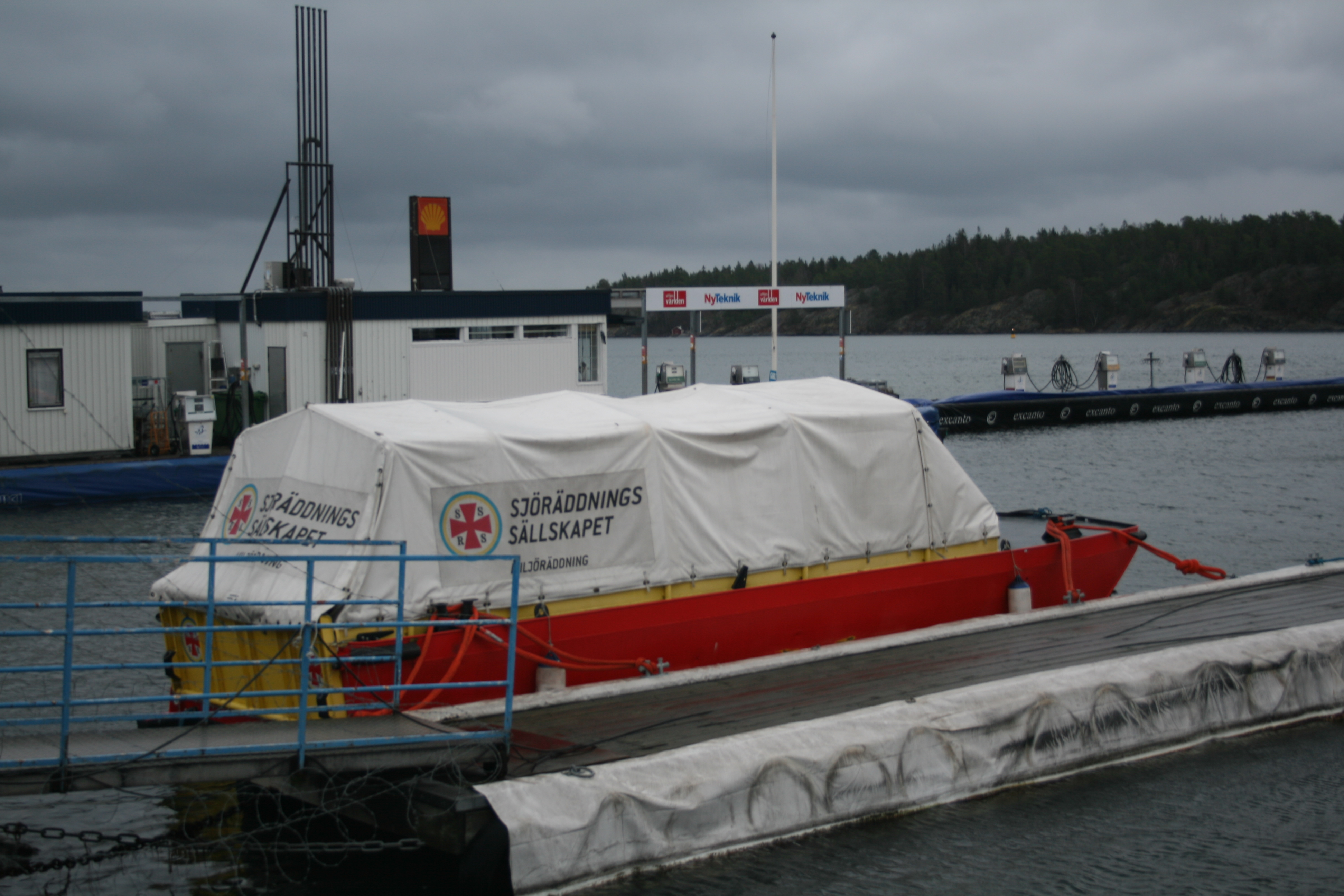 swedish environment support (ssrs, Nynäshamn)